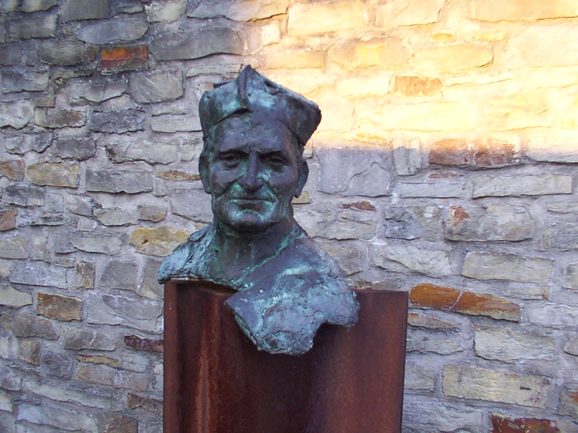 Paderborn: bust of Konrad Martin (1812-1879, bishop of Paderborn 1856-1879), in front of the Konrad-Martin-House